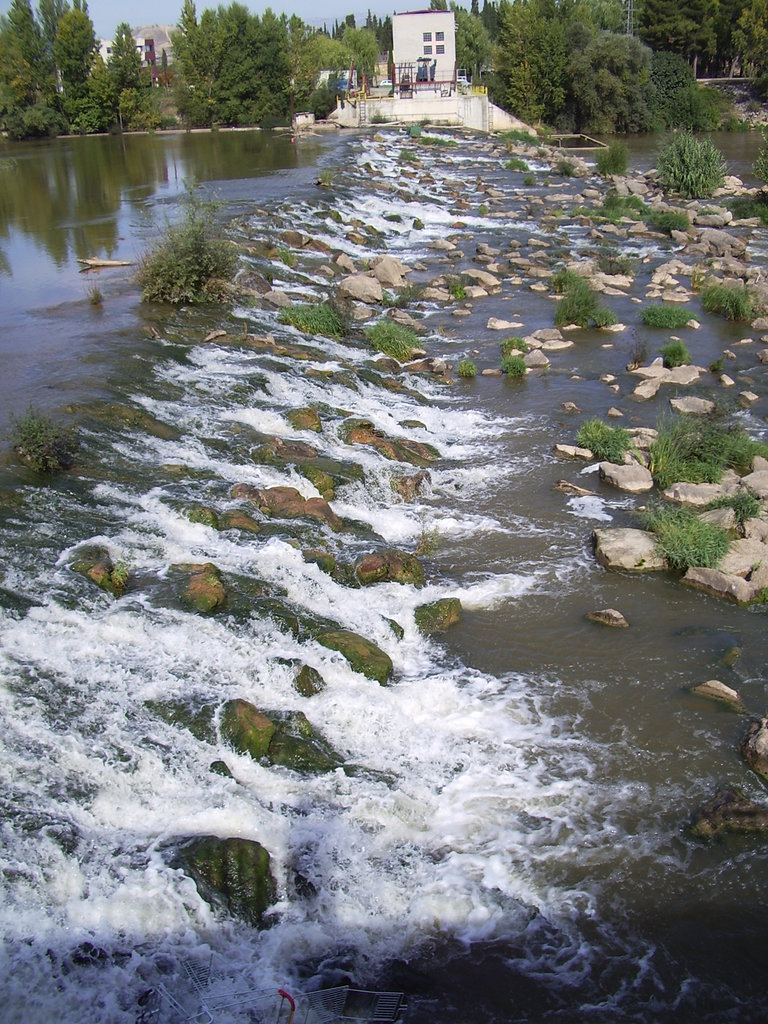 River Ebro near Logroño.